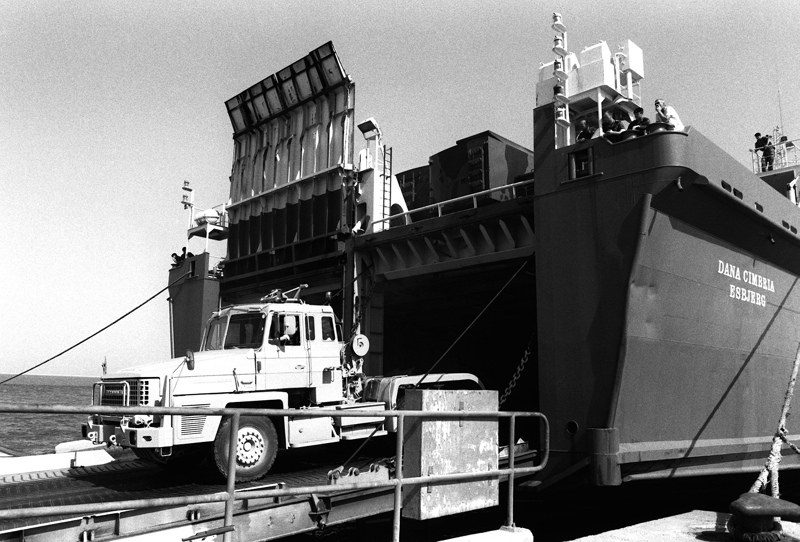 A Scammell Commander 6x4 tractor truck assigned to the British army's 7th Armour Brigade is driven down the stern ramp of the Danish cargo ship Dana Cimbria upon its arrival at the King Abdul Aziz Naval Port during Operation Desert Shield.